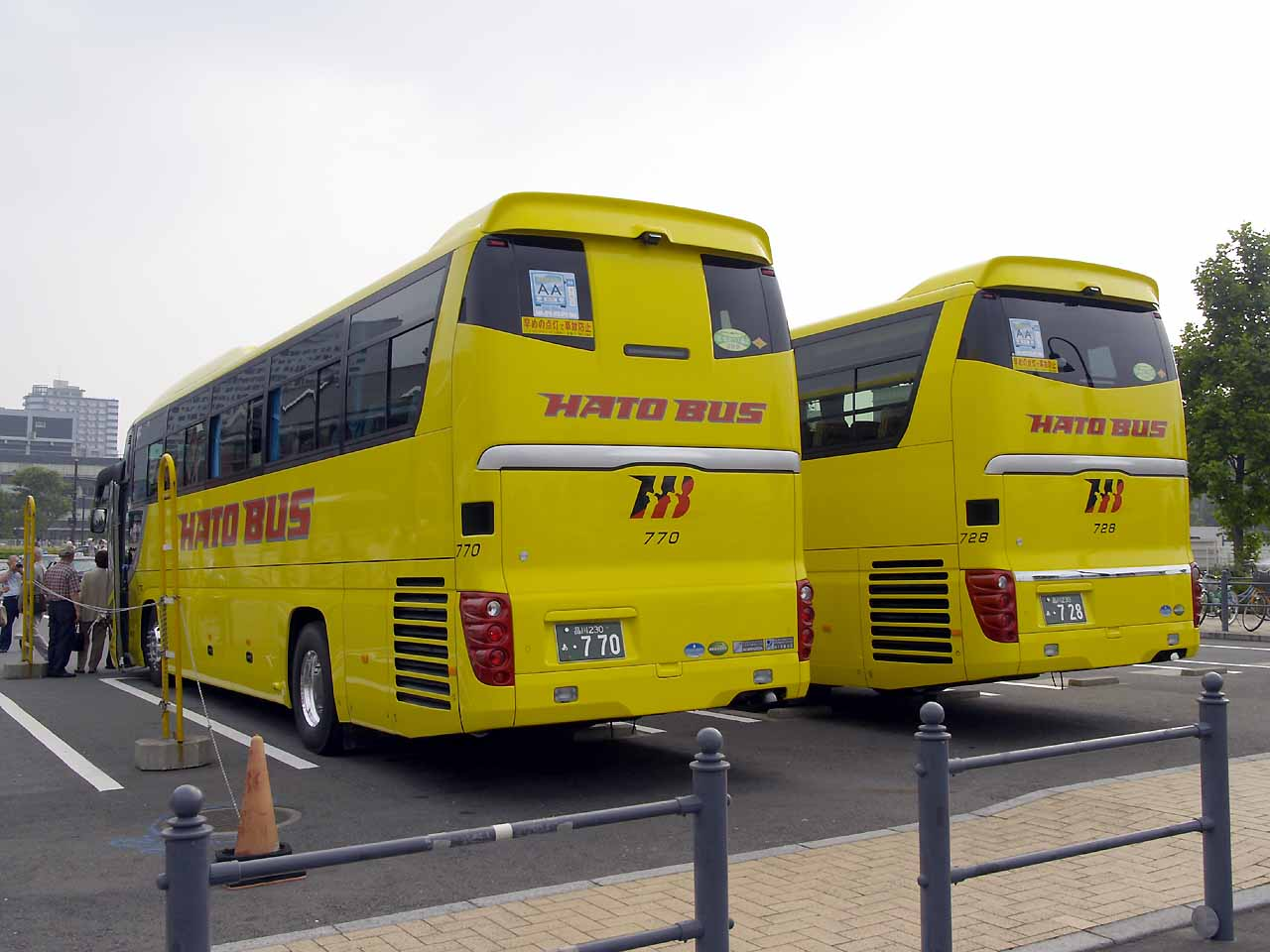 Detail of 2nd generation Hino Selega ( right ) and 2nd generation Isuzu Gala. Selega (right - TKS230 A-728): a silver line between tail lights. Gala (left - TKS230 A-770): devided 2 windows. Place: Red Brock Warehouse: Shinko, Naka ward, Yokohama city, Kanagawa Japan